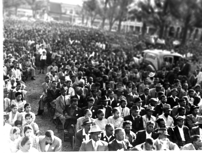 DPD/February,54,A31qMass Meeting at Durban on May 28, 1950 to protest against group Area Bill and Suppression of Communism Bill. Section of gathering of over 20,000 people-Africans, Indian and Coloured.The meeting was held under joint auspices of the African National Congress, Natal Indian Congress, and the coloured People Organisation. Photo Number:-37144